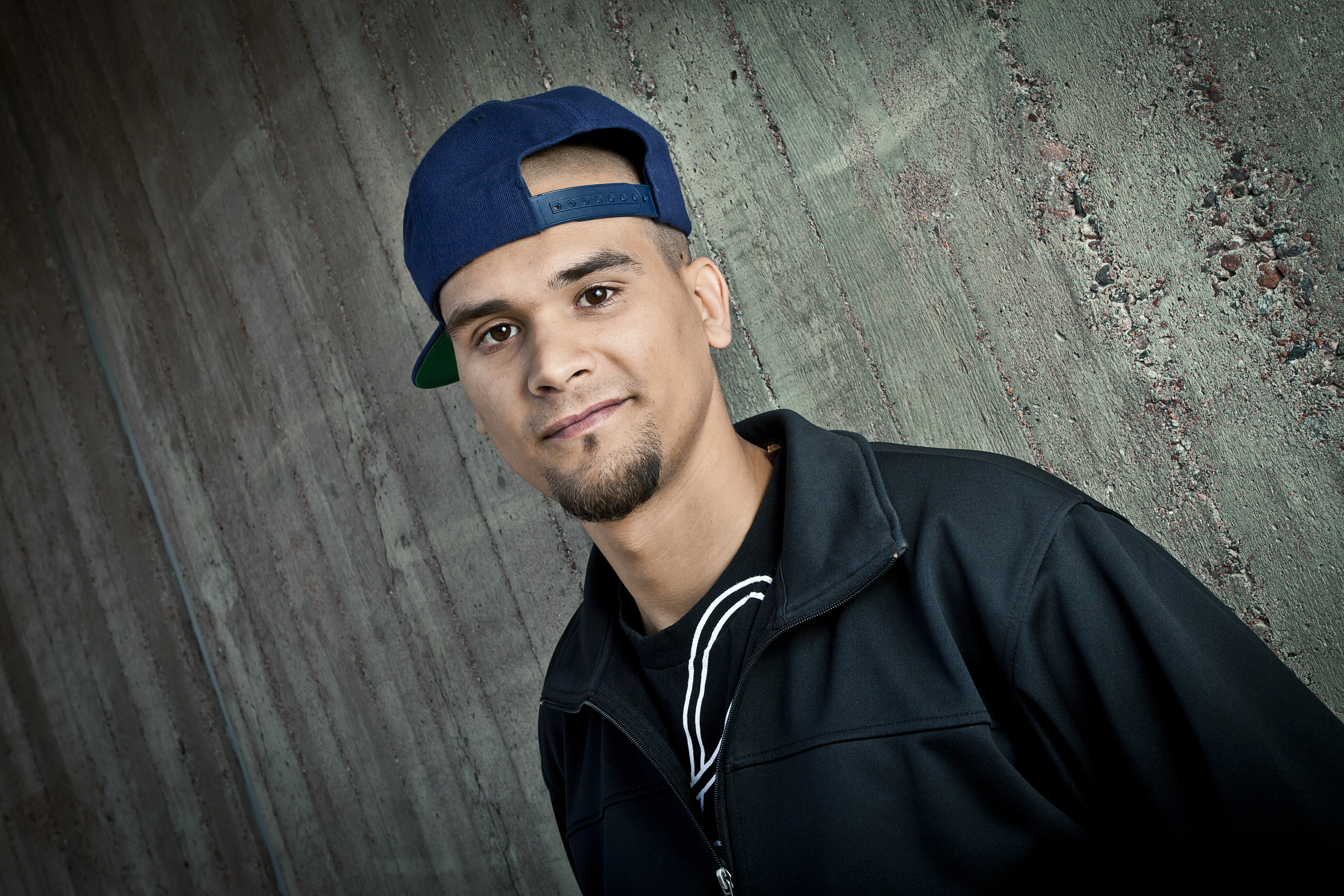 Press photo of Swedish rapper Dani M.